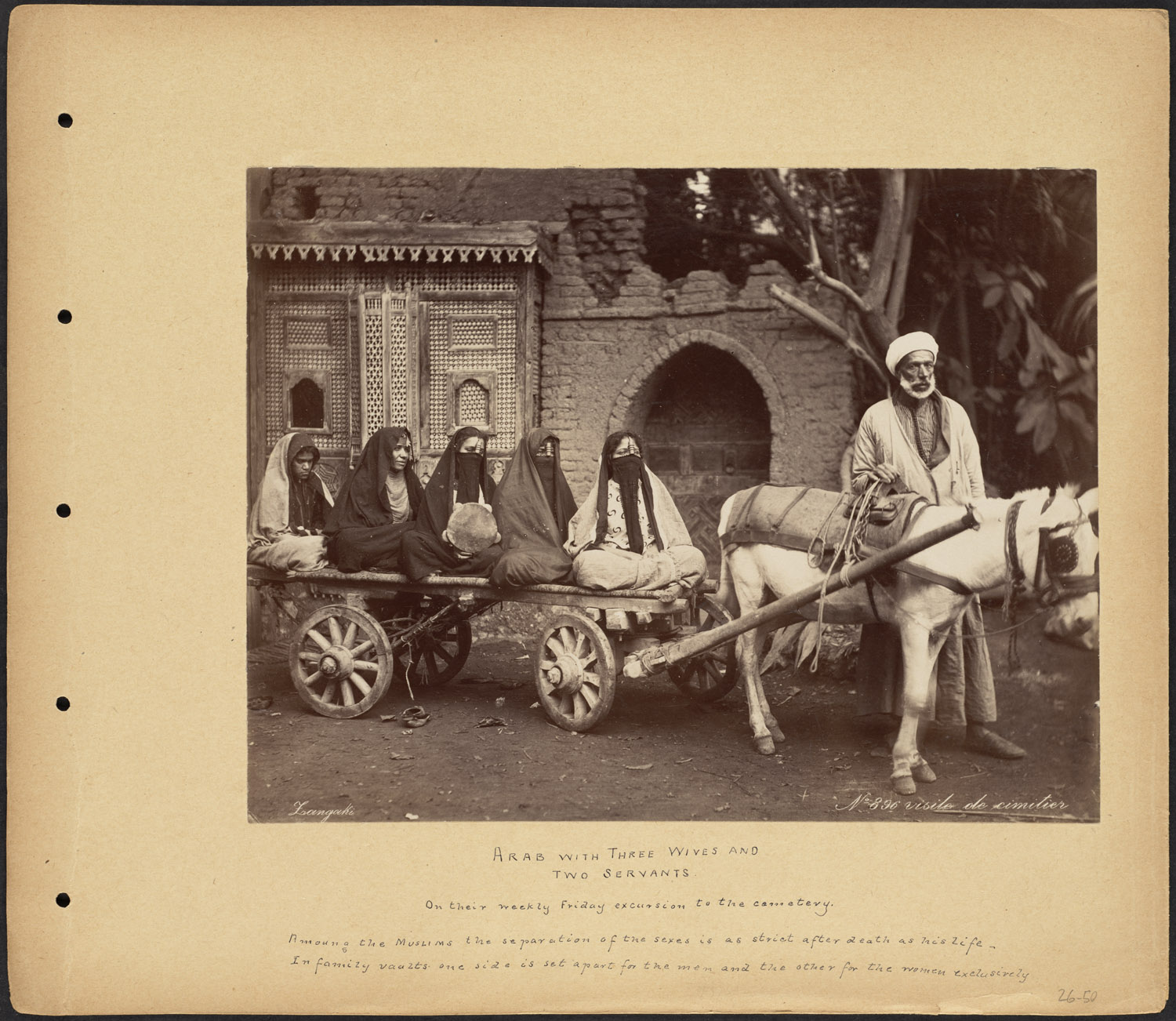 BPLDC no.: 08_04_000051 Page Title: Arab with Three Wives and Two Servants Collection: Tupper Scrapbooks Collection Album: Volume 26: Lower Egypt. Pyramids. Call no. 4098B.104 v26 (p. 50) Creator: Tupper, William Vaughn Description: Scrapbook page with a photograph of an Egyptian man standing next to a cart with five people riding in it. Subjects: Group portraits Egypt travel photography Carts & wagons Spouses Page size: 33 x 38.1 cm Annotations: On their weekly Friday excursion to the cemetery. Amoung the Muslims the separation of the sexes is as strict after death as his life. In family vaults one side is set apart for the men and the other for the women exclusively. Language: English, photograph titled in French Rights: No known restrictions. Coverage: Egypt Notes: Title supplied by cataloger, derived from captions or annotated information. Format: Scrapbooks Technique: Photographs, Albumen prints BPL Department: Print Department Photo 1: Photographer: Zangaki, Constantine Title: No. 896 visite de cimitier Caption: Arab with three wives and two servants Date: ca. 1860-1890 Flickr data on 2011-08-03: Camera: Sinar AG Sinarback 54 FW, Sinar m License: CC BY 2.0 User: Boston Public Library BPL